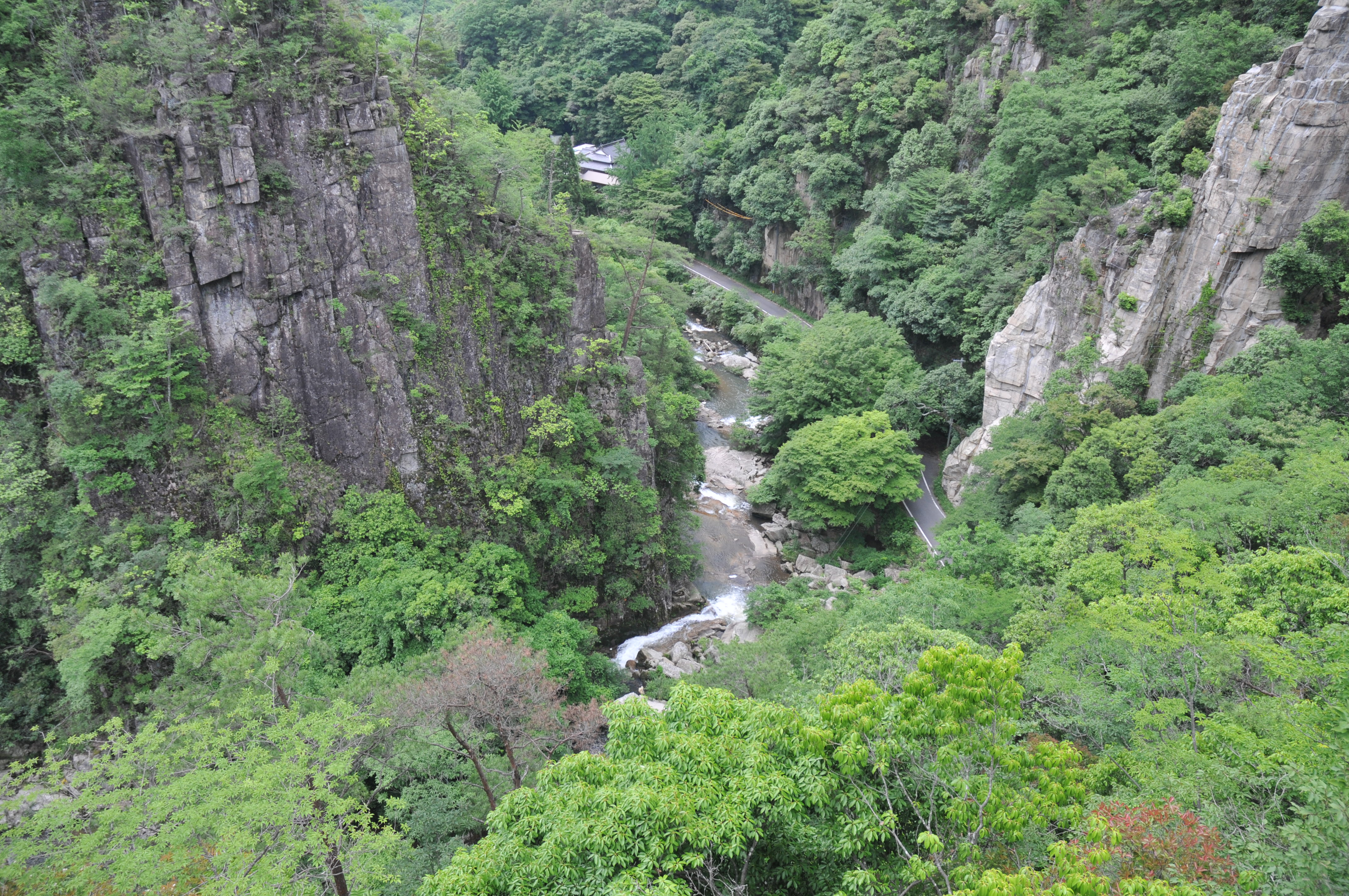 Go-kei